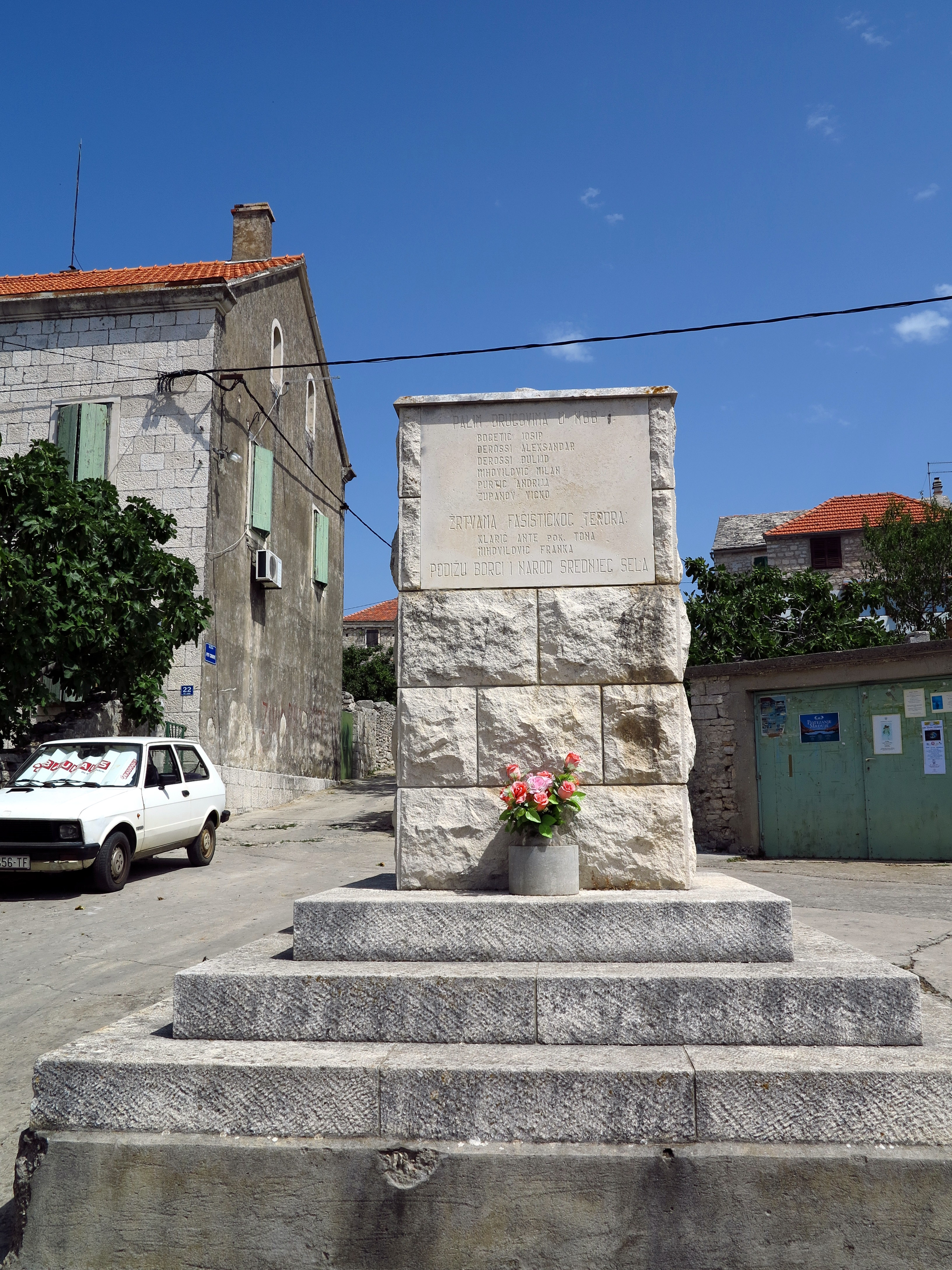 Memorial in Srednje Selo on the island Šolta / Croatia / Adriatic Sea. Memorial stone, reminiscent of the fighters and residents of Srednje Selo to fallen comrades and victims of fascism.